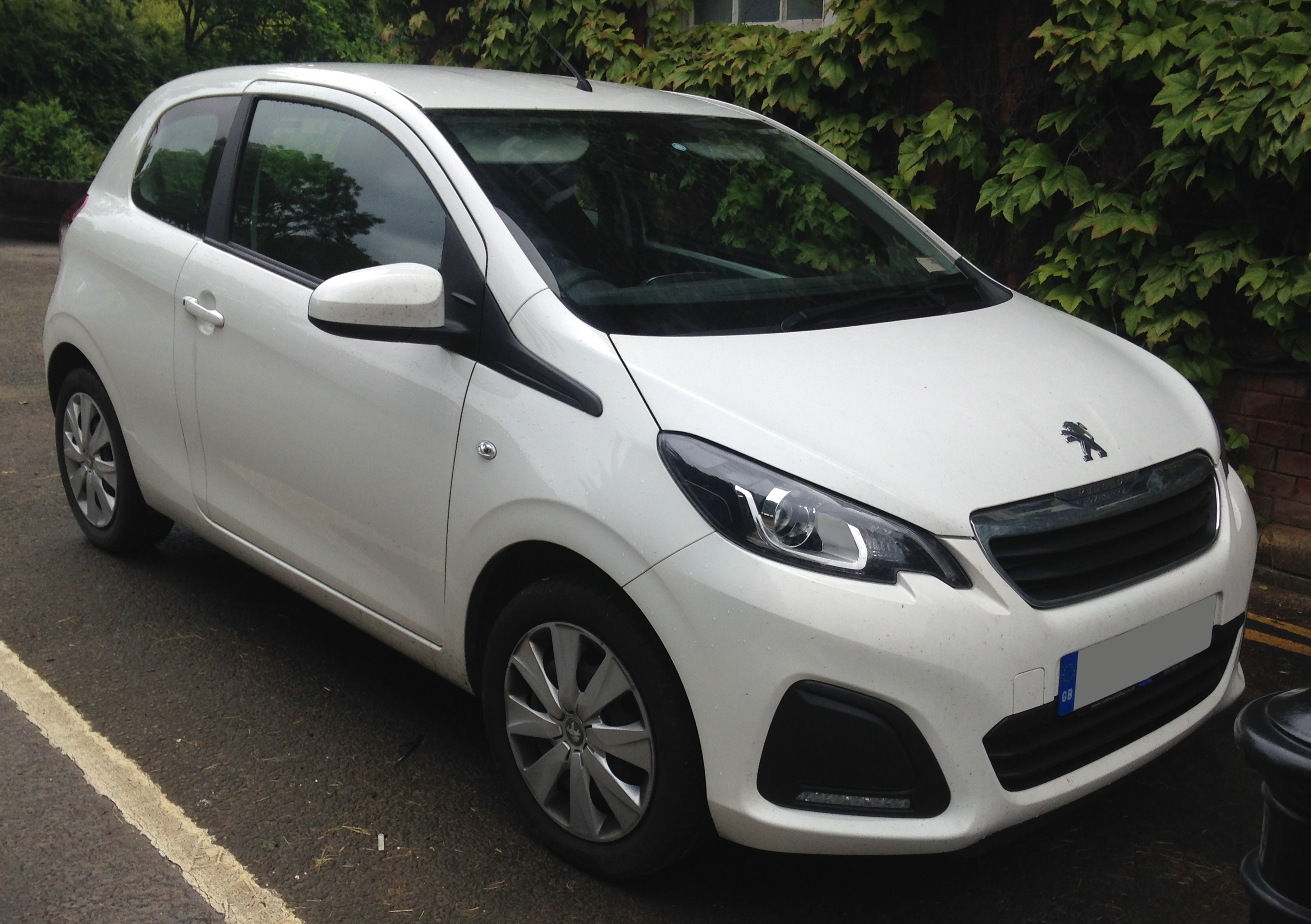 2015 Peugeot 108 Active Taken in Moreton Morrell College, England